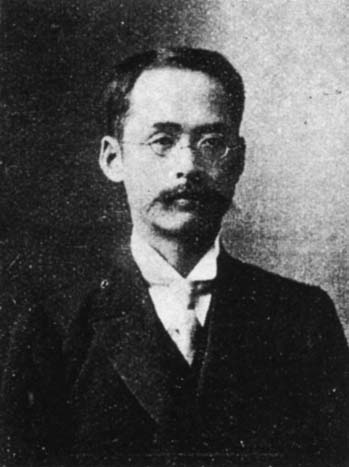 Mr. Kyōho Yoshioka, inspector of the Department of Education and professor of the Tokyo Academy of Music.